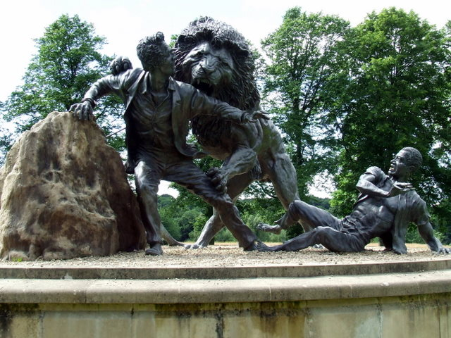 Livingstone and the Lion. See also 894638.